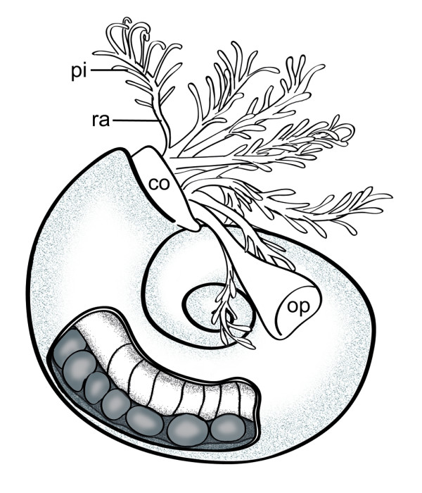 Schematic drawing of Spirorbis cf. spirorbis with the collar (co), the branchial crown consisting of radioles (ra) and pinnules (pi), and the operculum (op) protruding from the coiled shell. The latter is dissected open in the region of the anterior abdomen to unveil the membraneous tube surrounding the embryos.